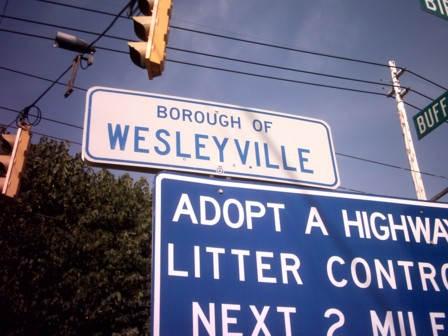 Wesleyville Borough, Pennsylvania sign